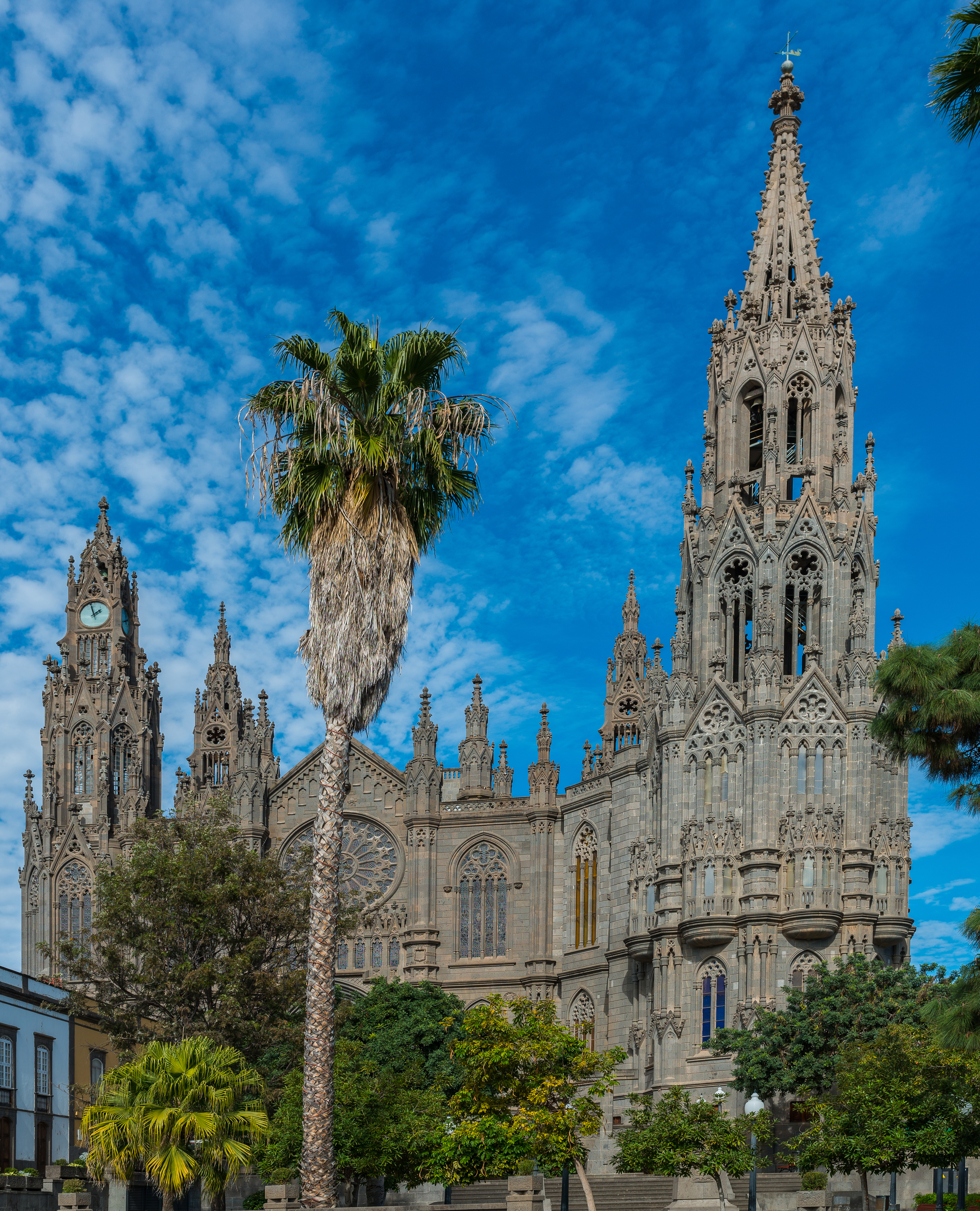 Arucas Gran Canaria January 2016